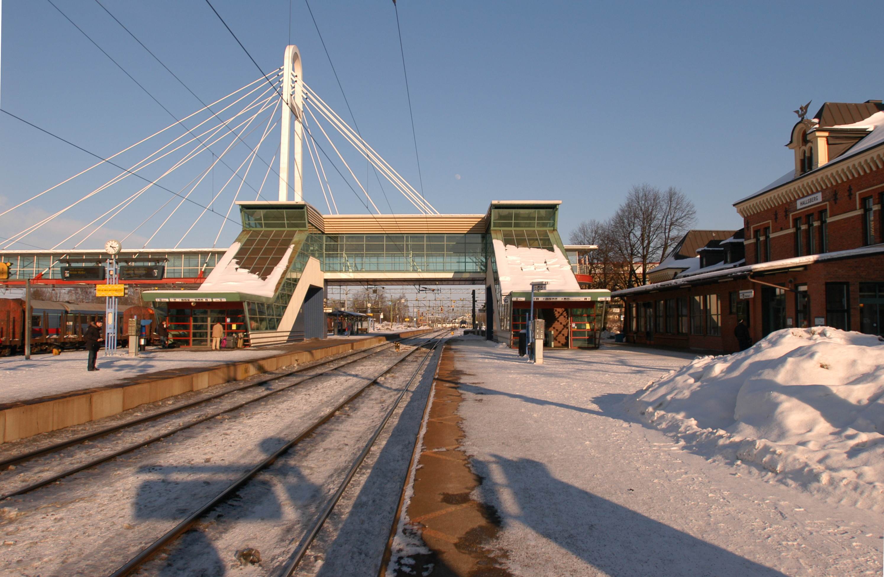 The railway station in Hallsberg, Sweden, a great railway hub on Västra stambanan.